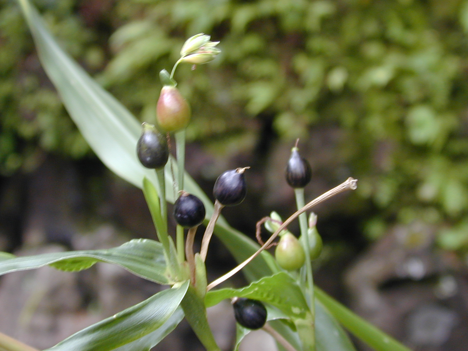 Coix lachryma-jobi (cu seeds). Location: Maui, Wahinepee